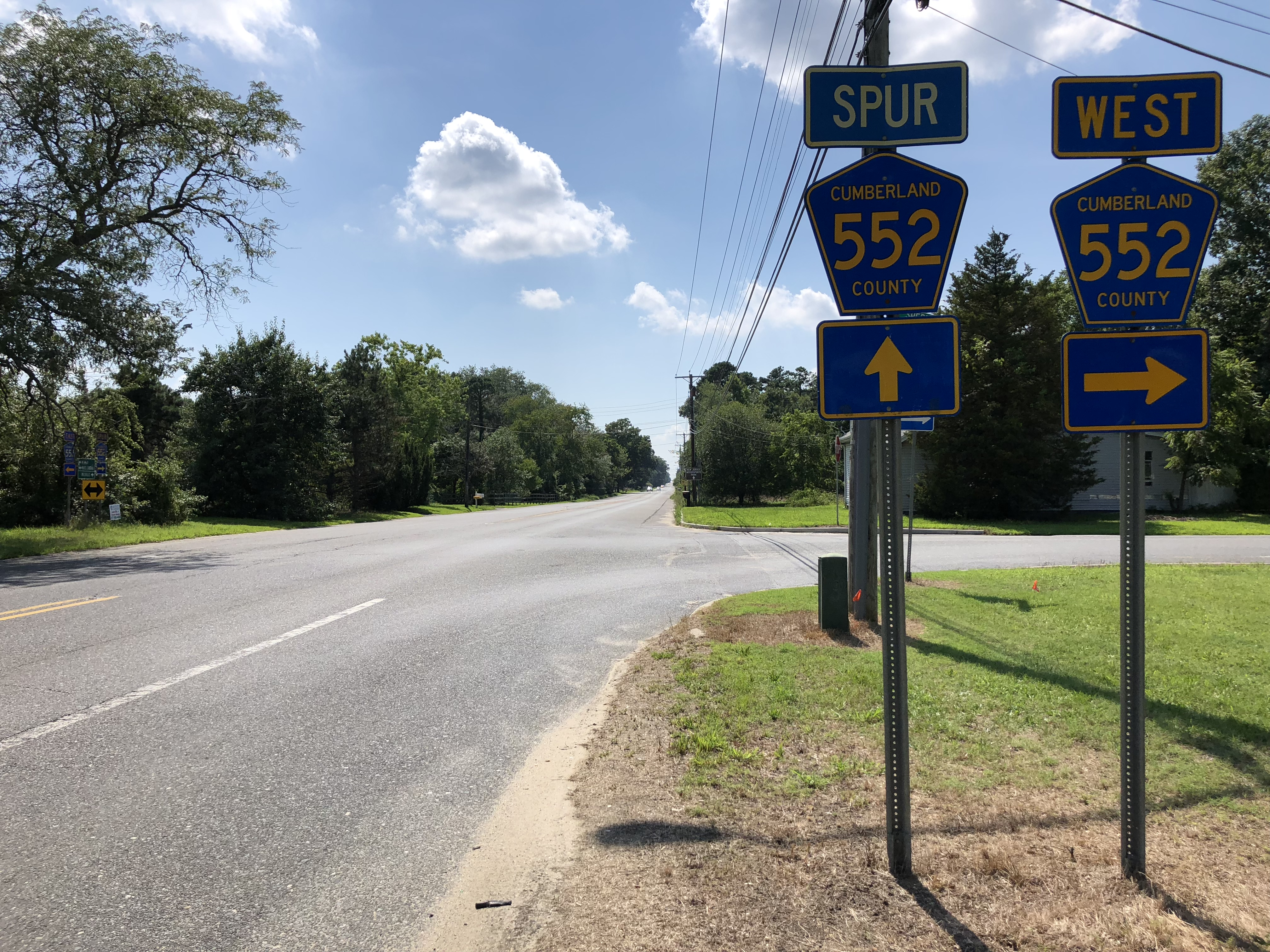 View west along Cumberland County Route 552 (Millville-Mays Landing Road) at Cumberland County Route 552 Spur in Vineland, Cumberland County, New Jersey